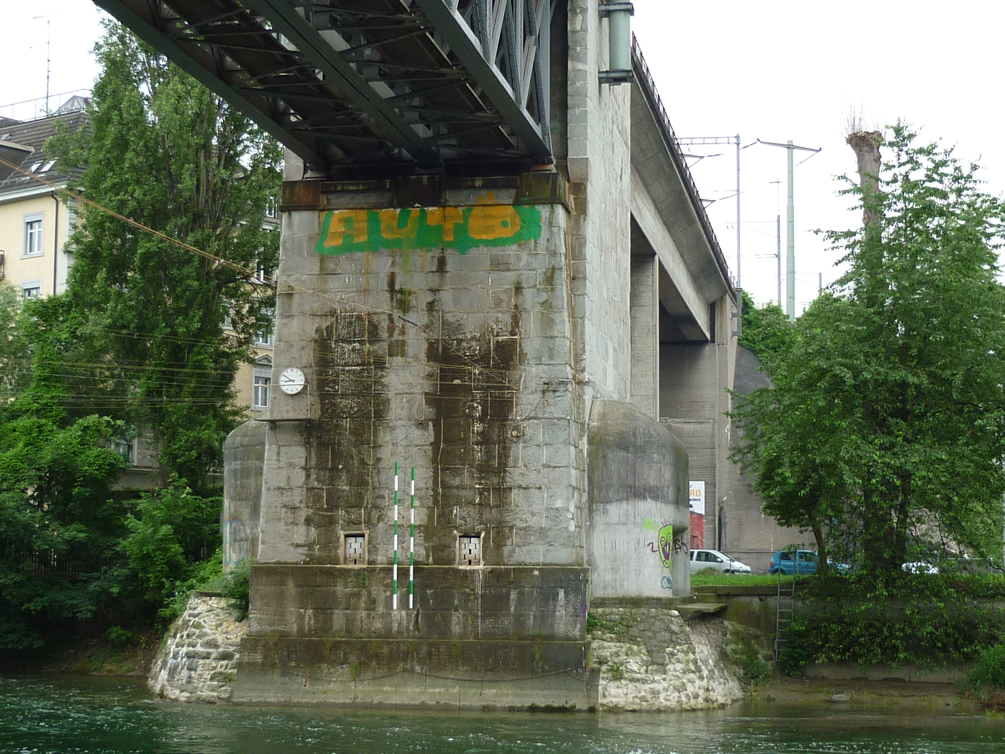 Bunker "Limmatlinie" WWII, City of Zurich, Switzerland